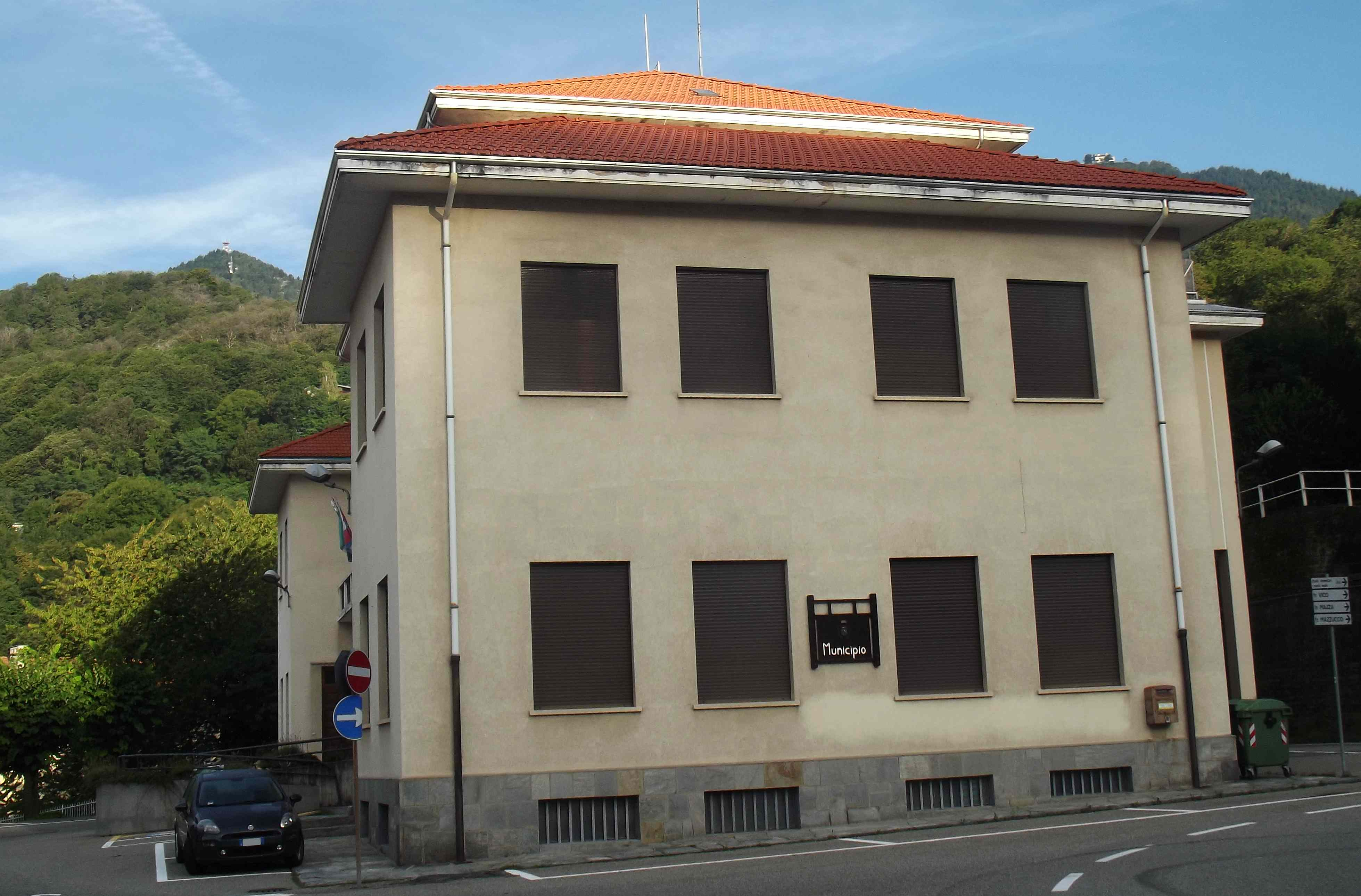 Trivero (BI, Italy): town hall in frazione Ronco (now town hall of Valdilana)